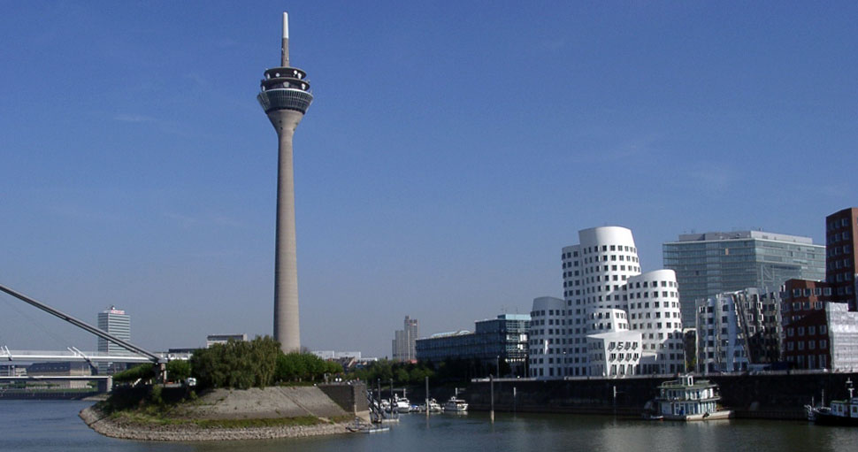 photo taken by Gert Schüler, public domain, 18. Sep. 2003